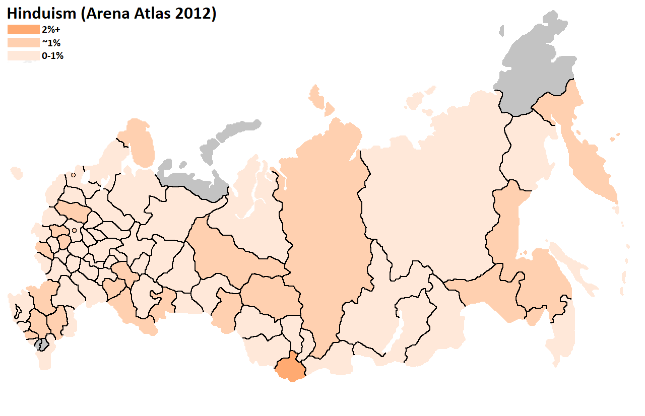 Percentage of Hindus by region of Russia. Source: "Арена: Атлас религий и национальностей России" (Arena: Atlas of Religions and Nationalities of Russia). Среда (Sreda), 2012. Full publication (PDF). Realised as a extension of the All-Russian Population Census 2010 (Всероссийской переписи населения 2010) and in collaboration with the Russian Ministry of Justice (Минюста РФ).